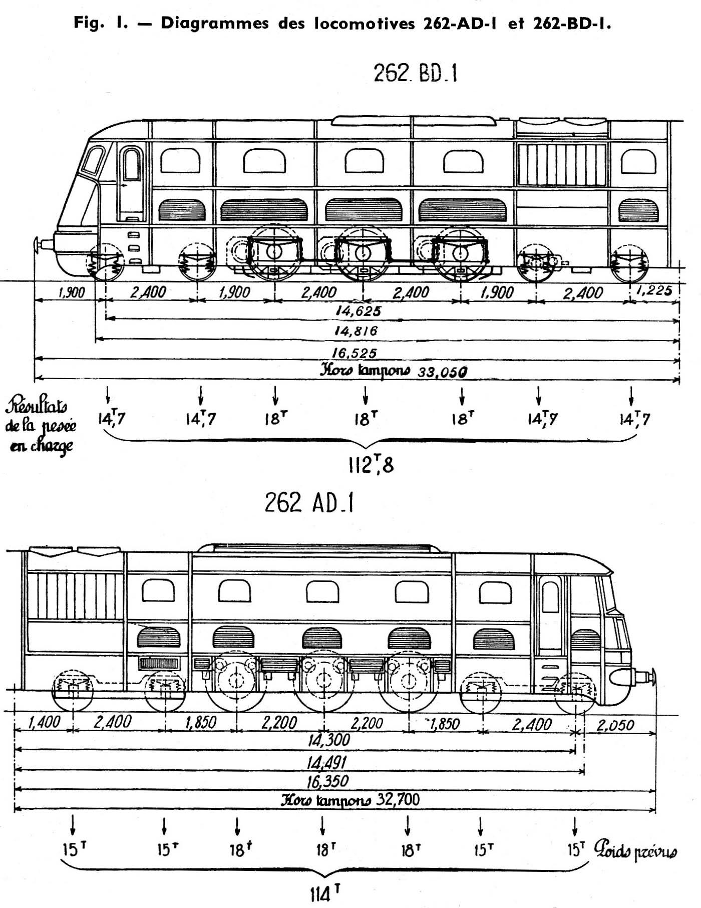 Drawing of Diesel prototypes PLM 262 AD 1 & BD 1, 1937